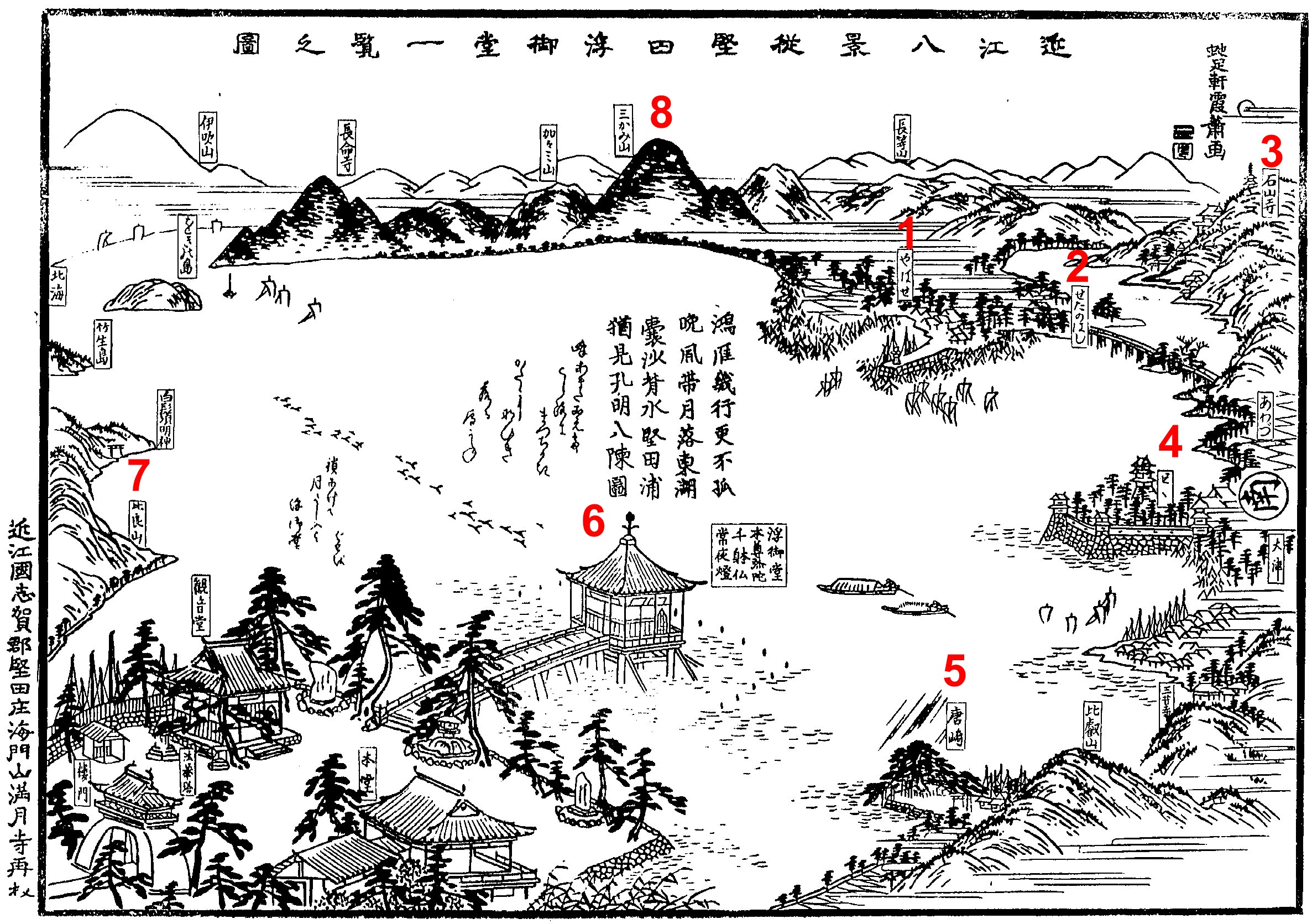 Omi Hakkei all places